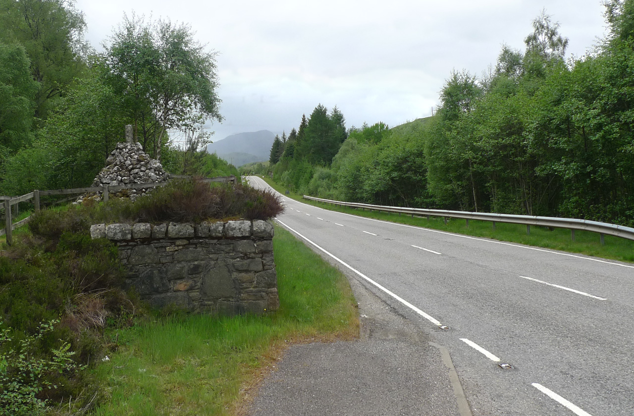 Roderick Mackenzie's cairn stands beside the A887 in Glenmoriston. The inscription on the cairn reads: "At this spot in 1746 died Roderick Mackenzie, an office in the army of Prince Charles Edward Stuart, of the same size and of similar resemblance to his royal prince, when surrounded and overpowered by the troops of the Duke of Cumberland gallantly died in attempting to save his fugitive leader from further pursuit."